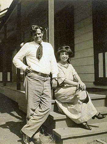 Jack London (1876-1916) and Charmian London (1871-1955), American writers, ca. 1911/16, at The Old Winery Cottage (part of Beauty Ranch). See this pic of The Old Winery Cottage (the porch on the left)